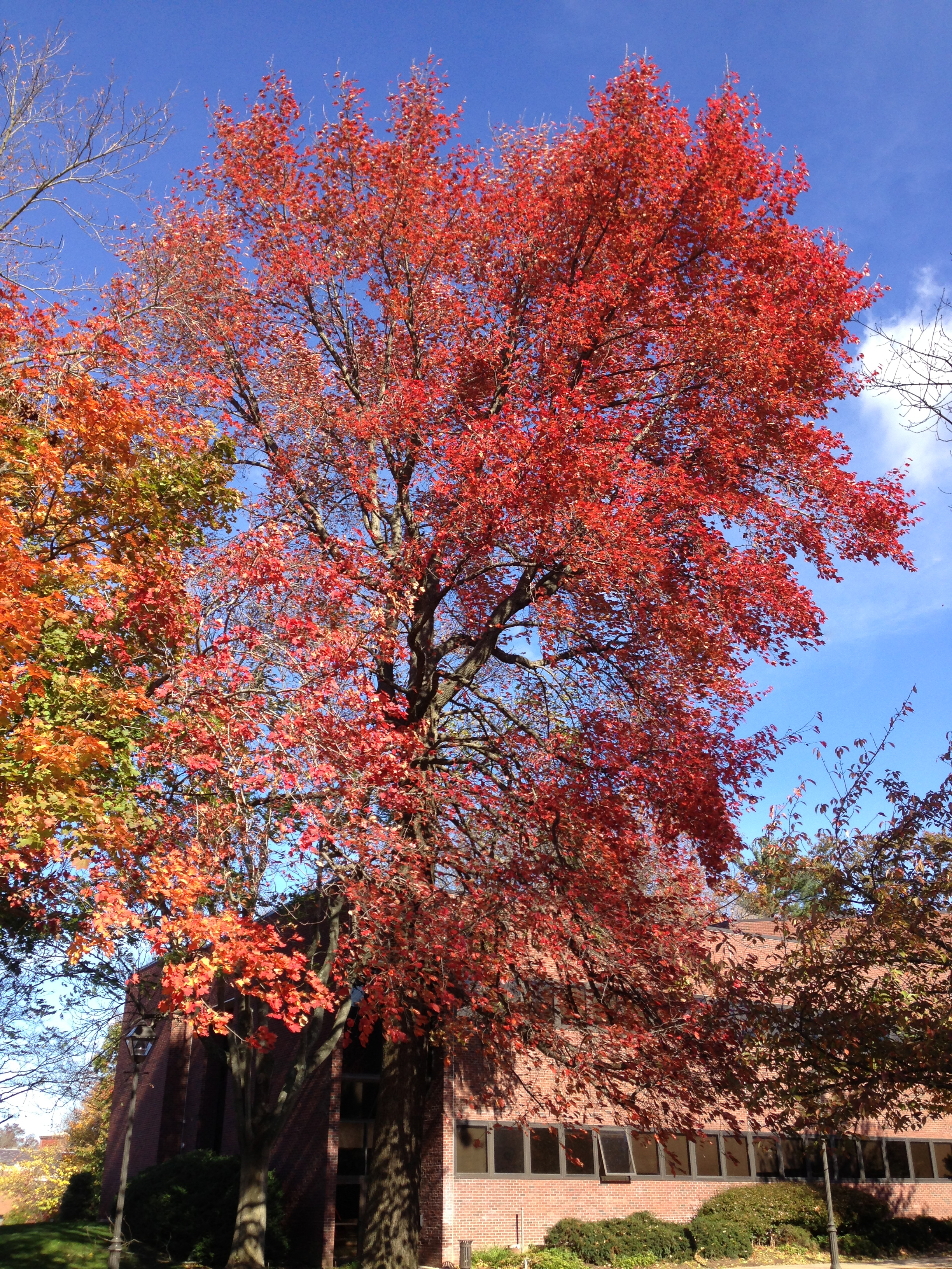 Black Tupelo during autumn at The College of New Jersey in Ewing, New Jersey